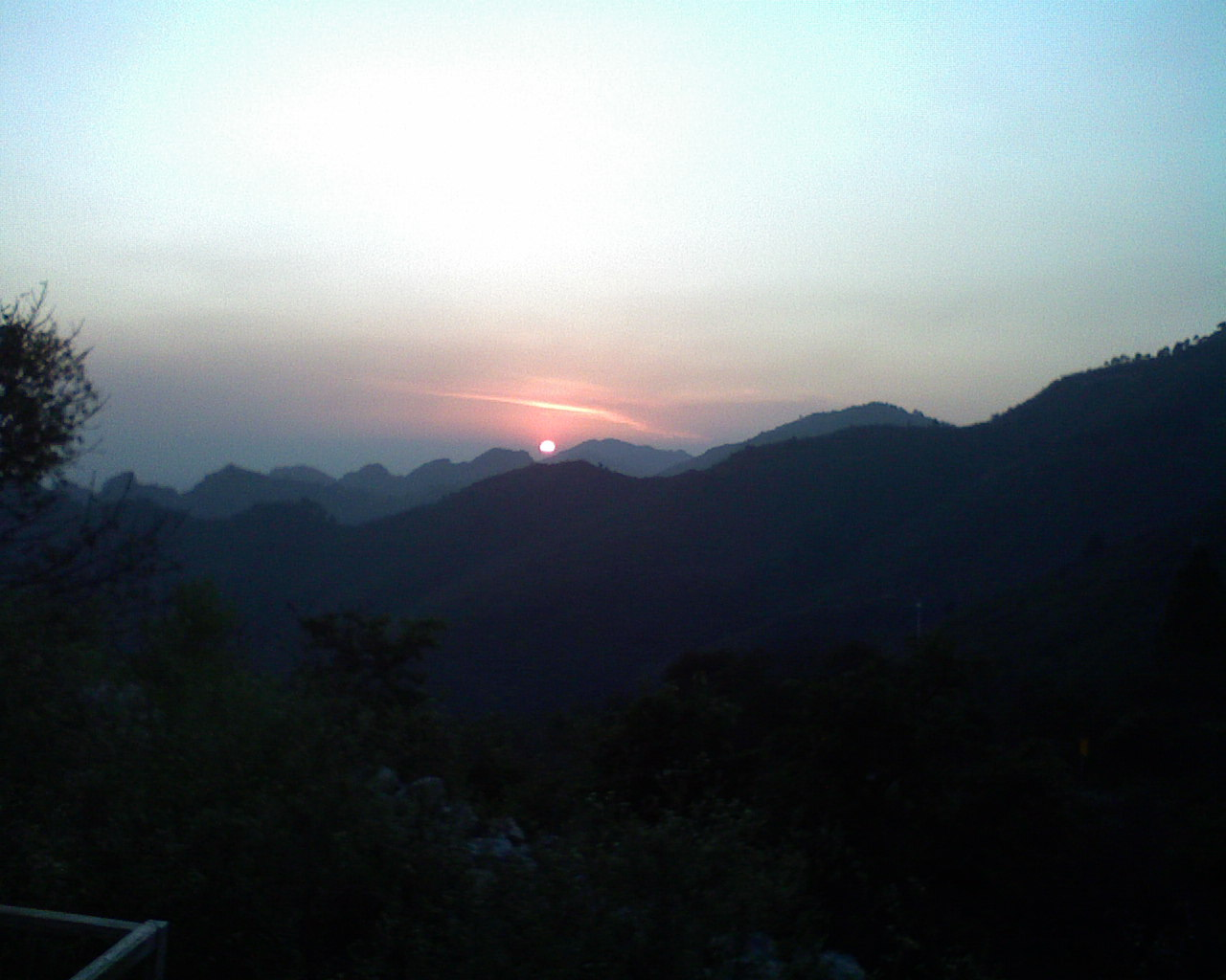 Setting sun near Peer Sohawa Margalla Hills